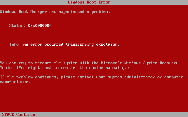 A Red screen of death as seen in some early builds of Windows "Longhorn", specifically build 5048. The spelling exectuion rather than execution is reproduced as originally displayed.